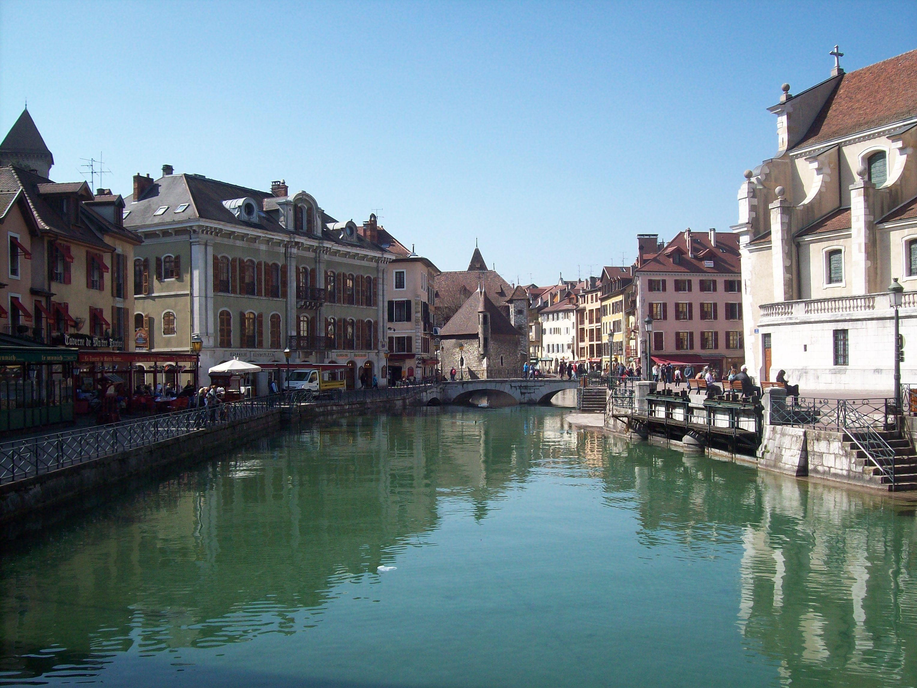 Old city of Annecy and the "palais de l'Isle".